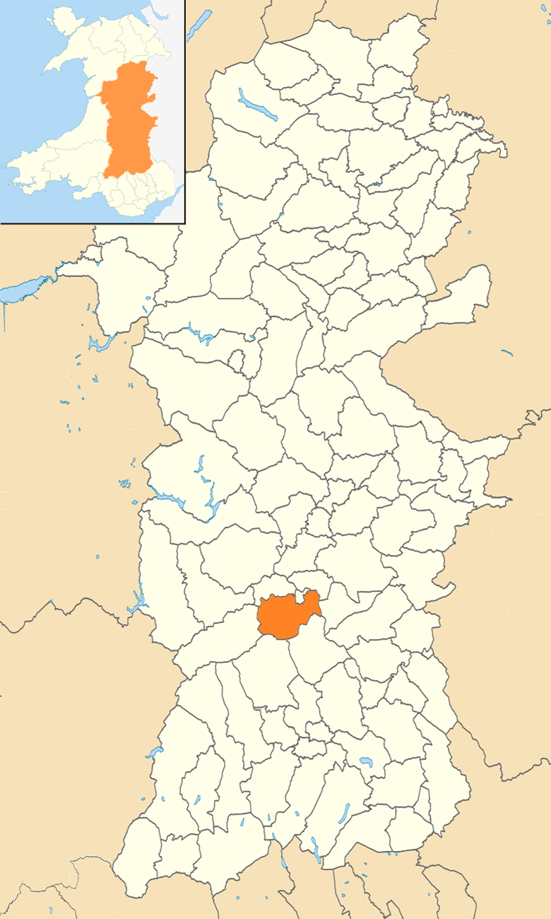 Location map of the community (civil parish) of Duhonw in mid Powys, Wales